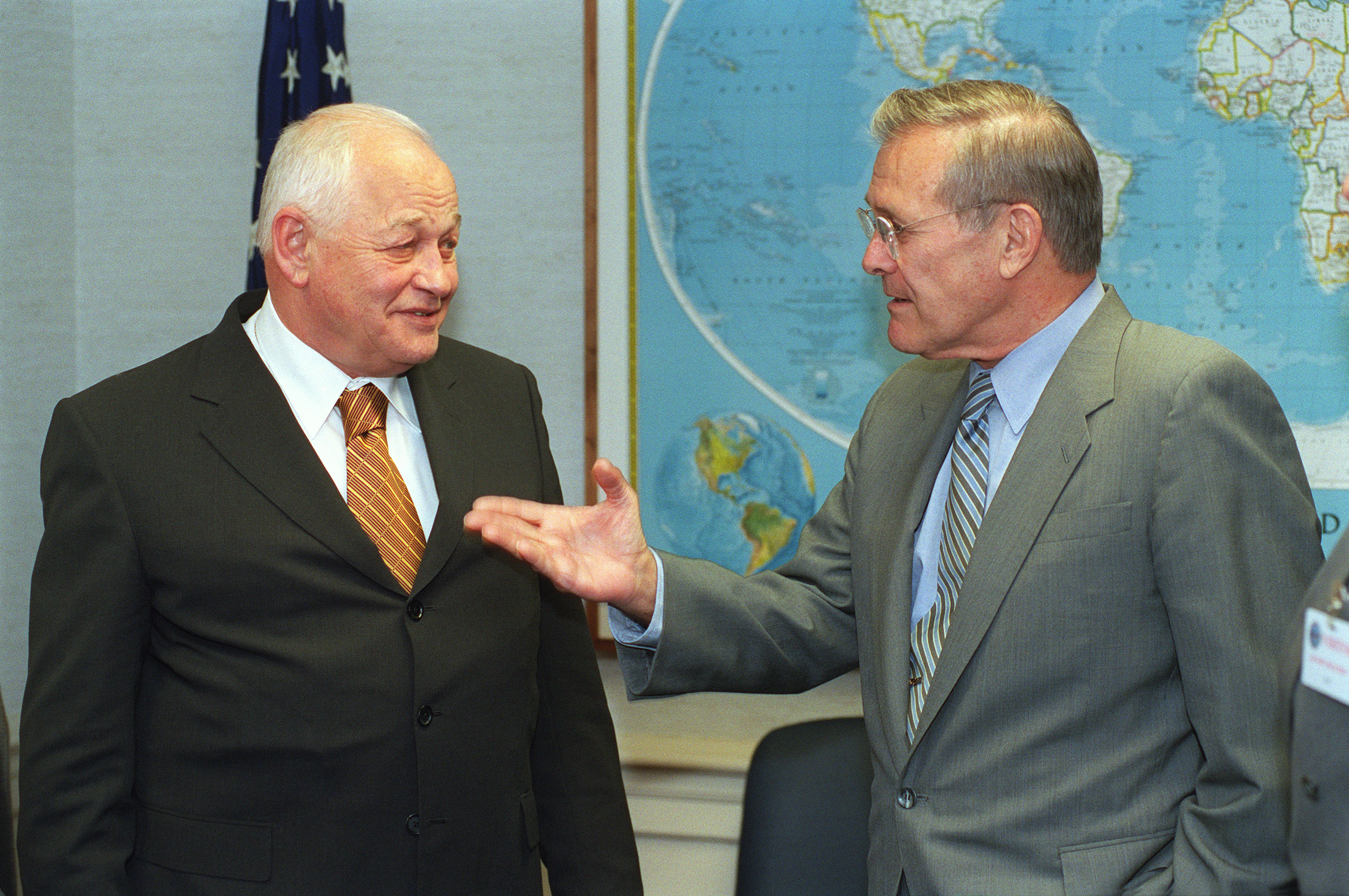 Secretary of Defense Donald H. Rumsfeld (right) discusses ballistic missile defense with Marshal Igor Sergeyev (left), special advisor on strategic stability to Russian President Vladimir Putin, at the Pentagon, June 20, 2001.